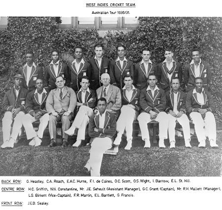 A photograph of the West Indies Cricket Team which toured Australia in 1930/31. The photograph includes the players and the Manager and Assistant Manager.